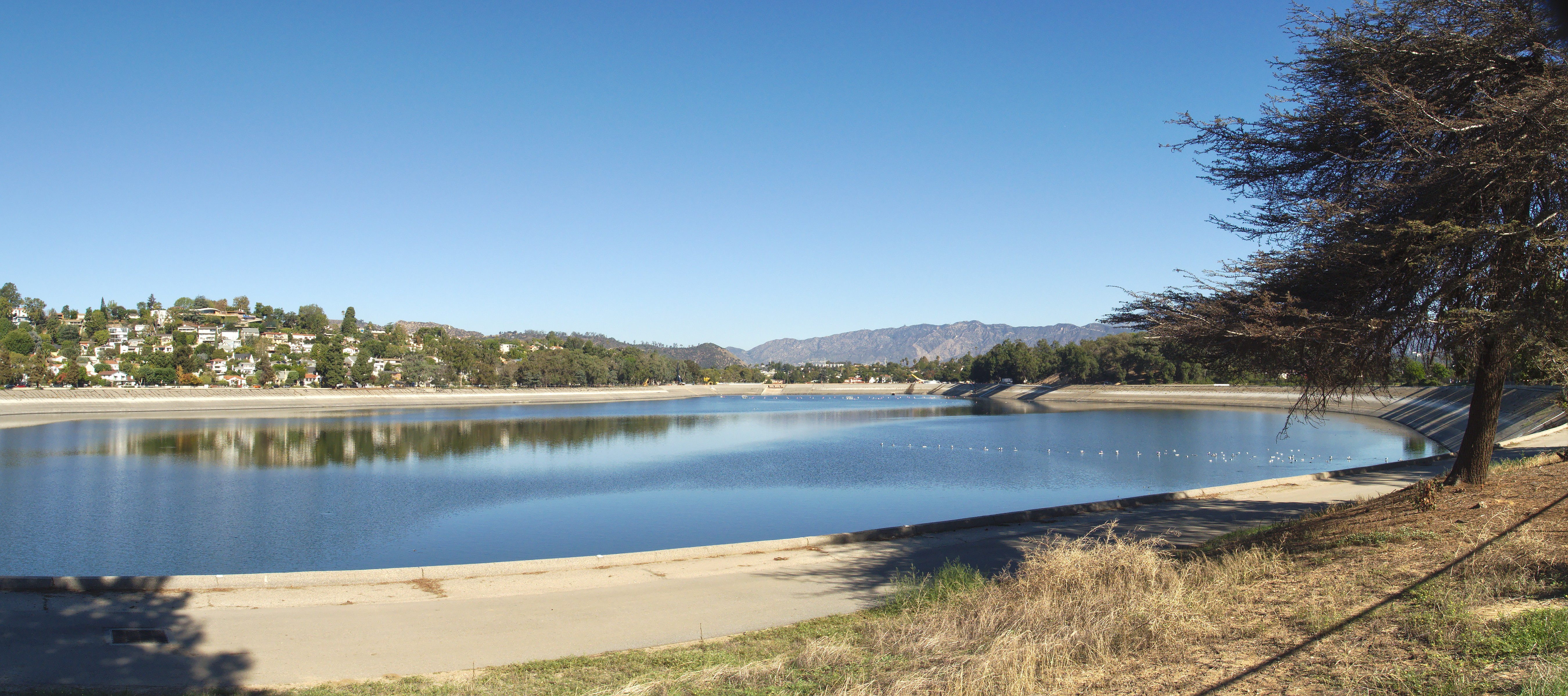 Looking northwest across the Silver Lake Reservoir from the eastern side, panoramic view.